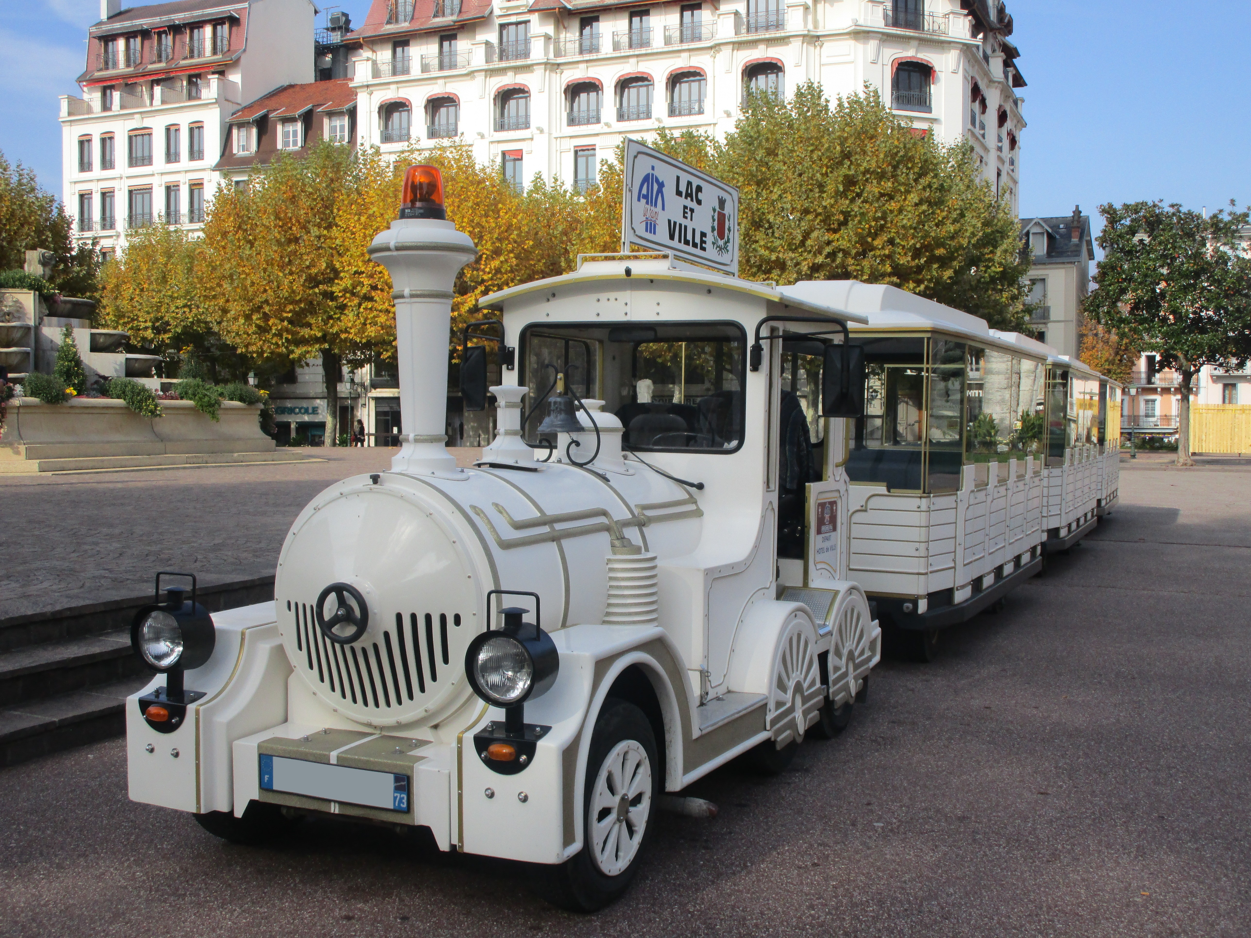 The touristic train of Aix-les-Bains on the Place Maurice Mollard of Aix-les-Bains on July 17, 2015.